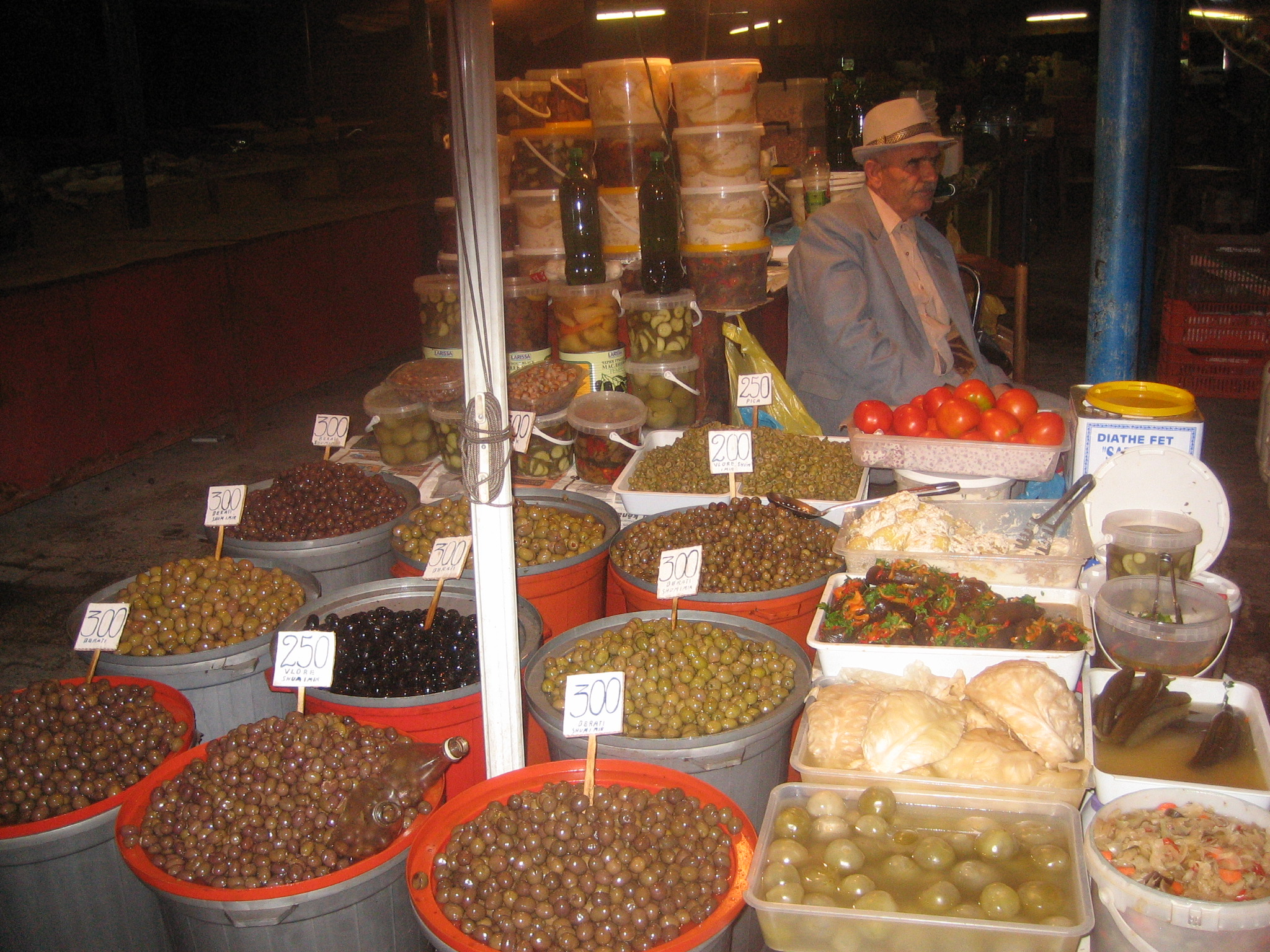 Olive stall at the market on Sheshi Avni Rustemi, Tirana